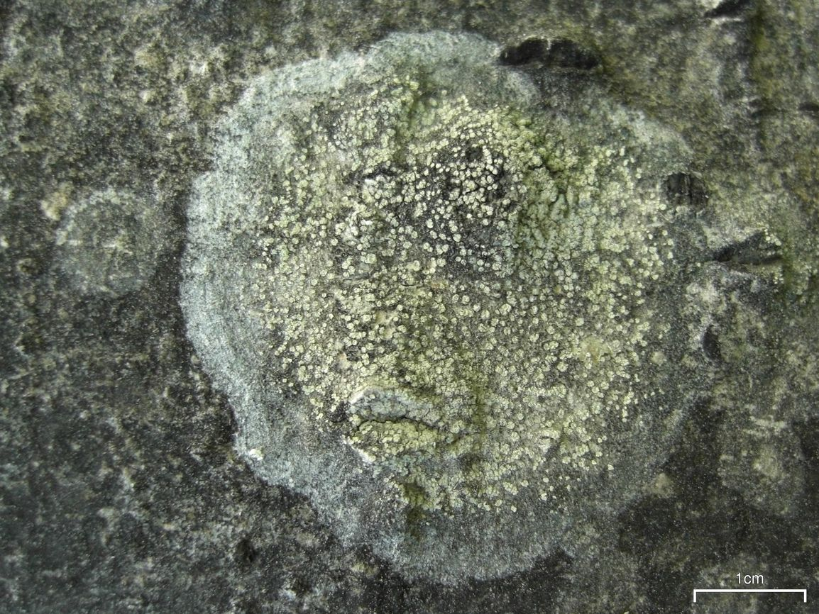 Lecanora impudens Degel. 20090623 (photo #85) near Grande Cache, Alberta Okay, I'm taking some liberties with the common name. Thanks to Curtis for the ID.